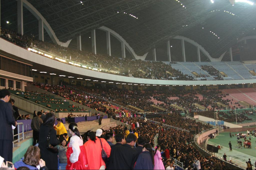 Watching the May-Day stadium slowly filling up as we get ready for the greatest show on earth.